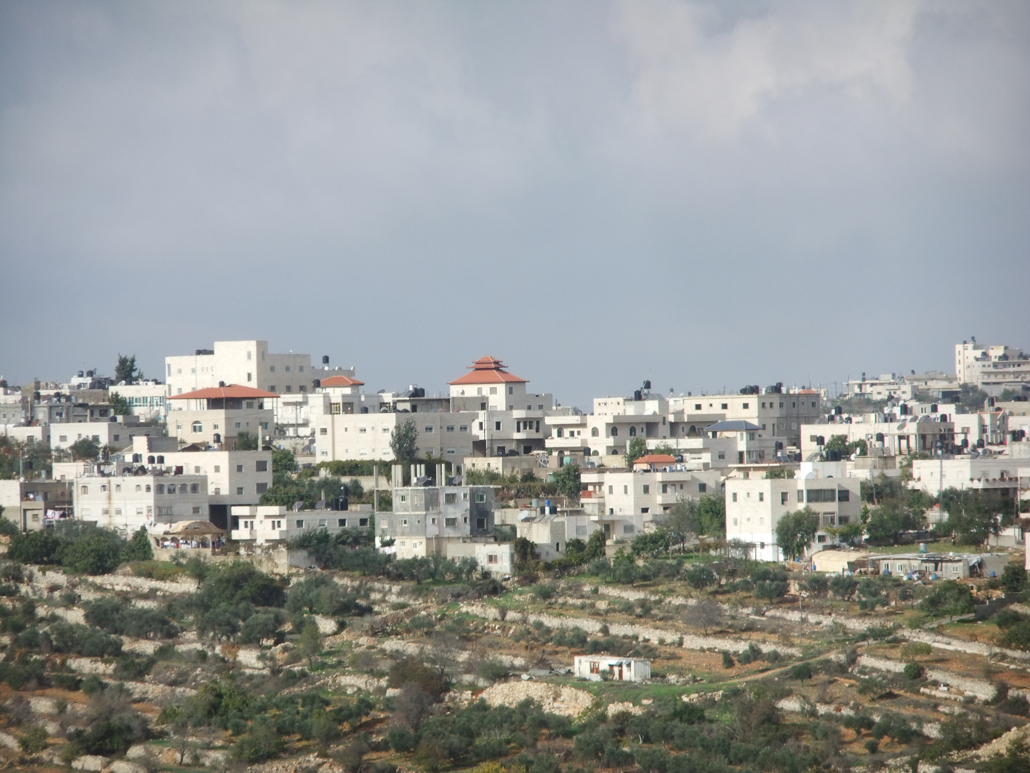 Beit Surik from Mevaseret